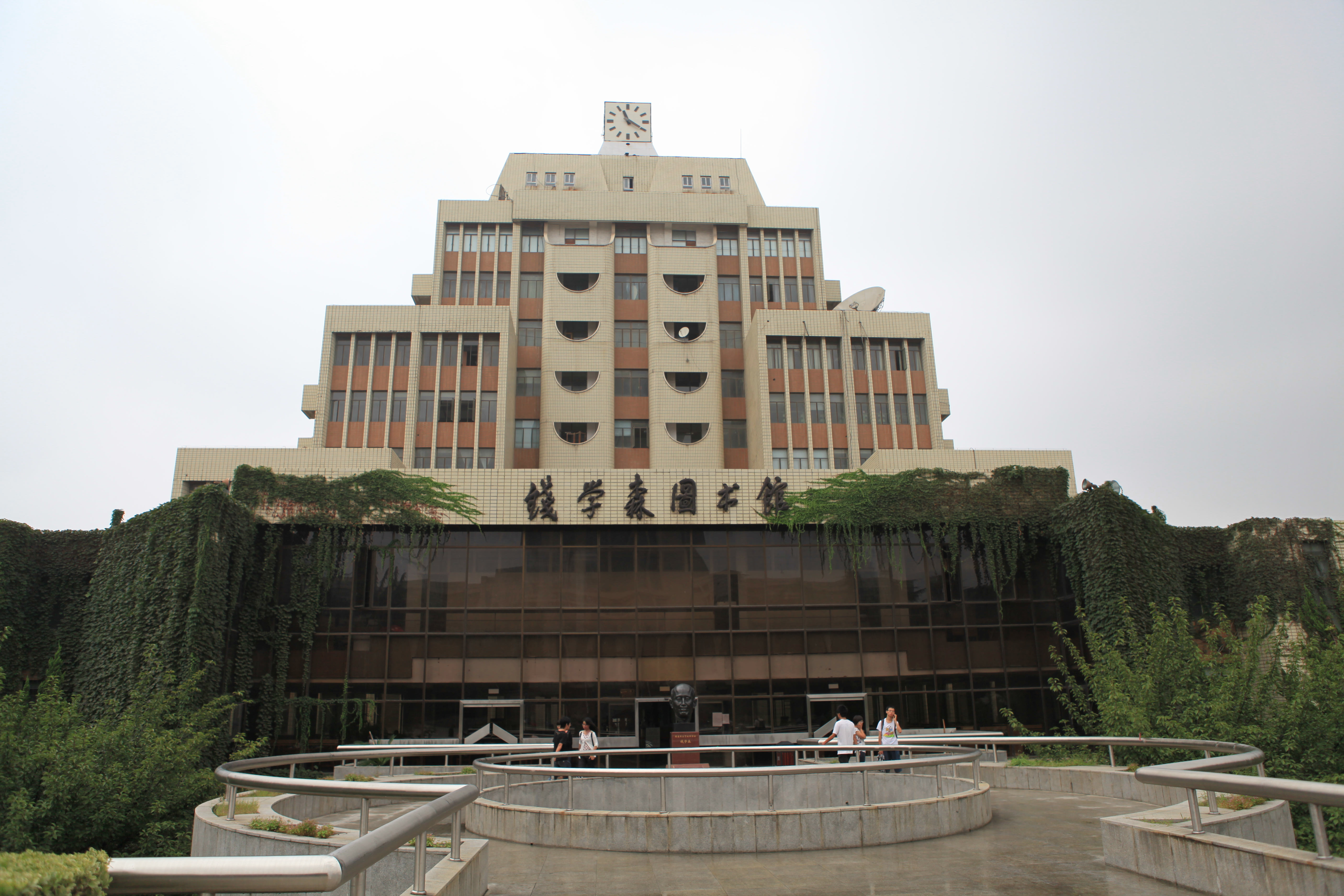 Xi'an Jiao Tong University Library